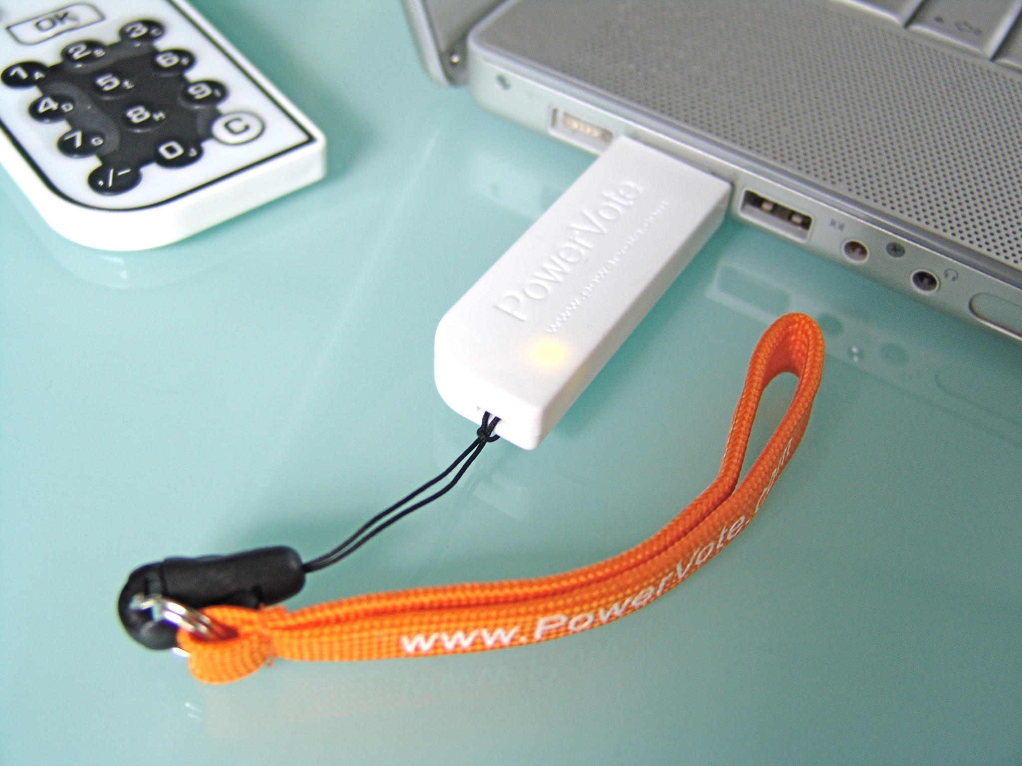 USB RF ARS Receiver